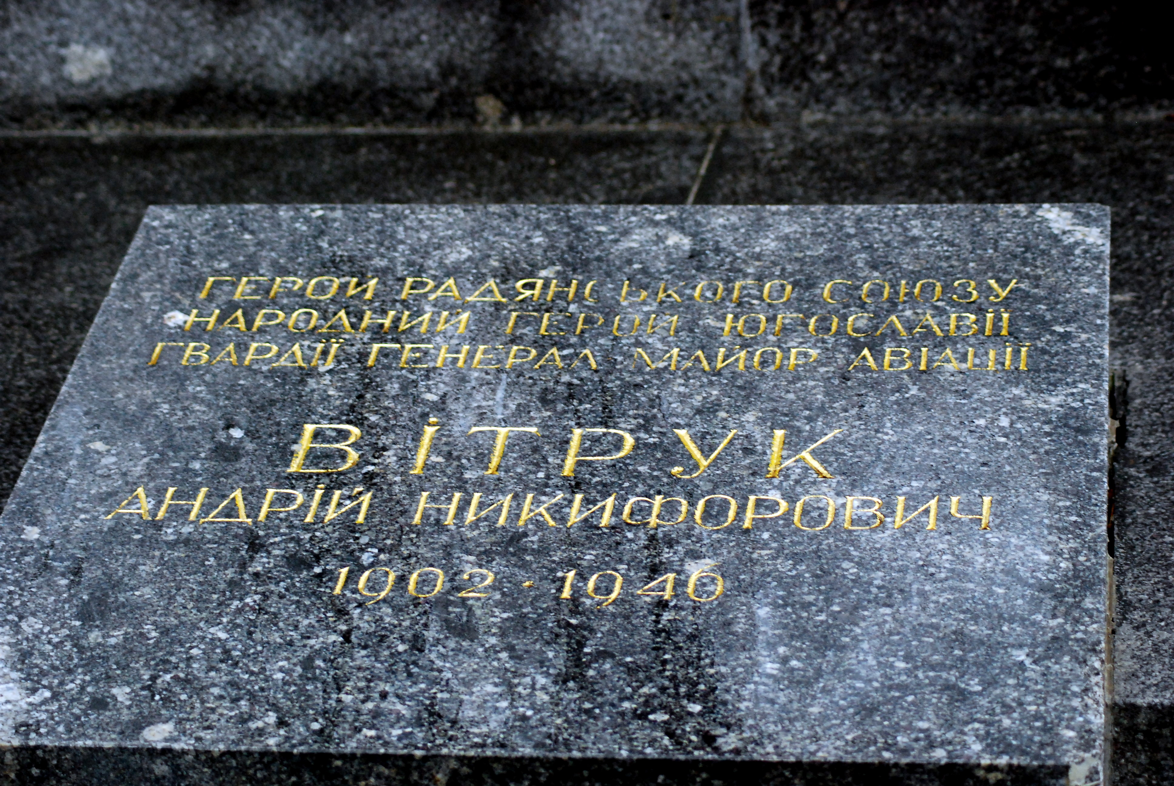 A cenotaph of Gen. Andrej Nikiforovich Vitruk, a Hero of the Soviet Union, located in Alley of Heroes. Slava Park, Pechersk Raion, Kiev, right next to the Kievo-Pecherskaya Lavra, on the banks of the Dneper.